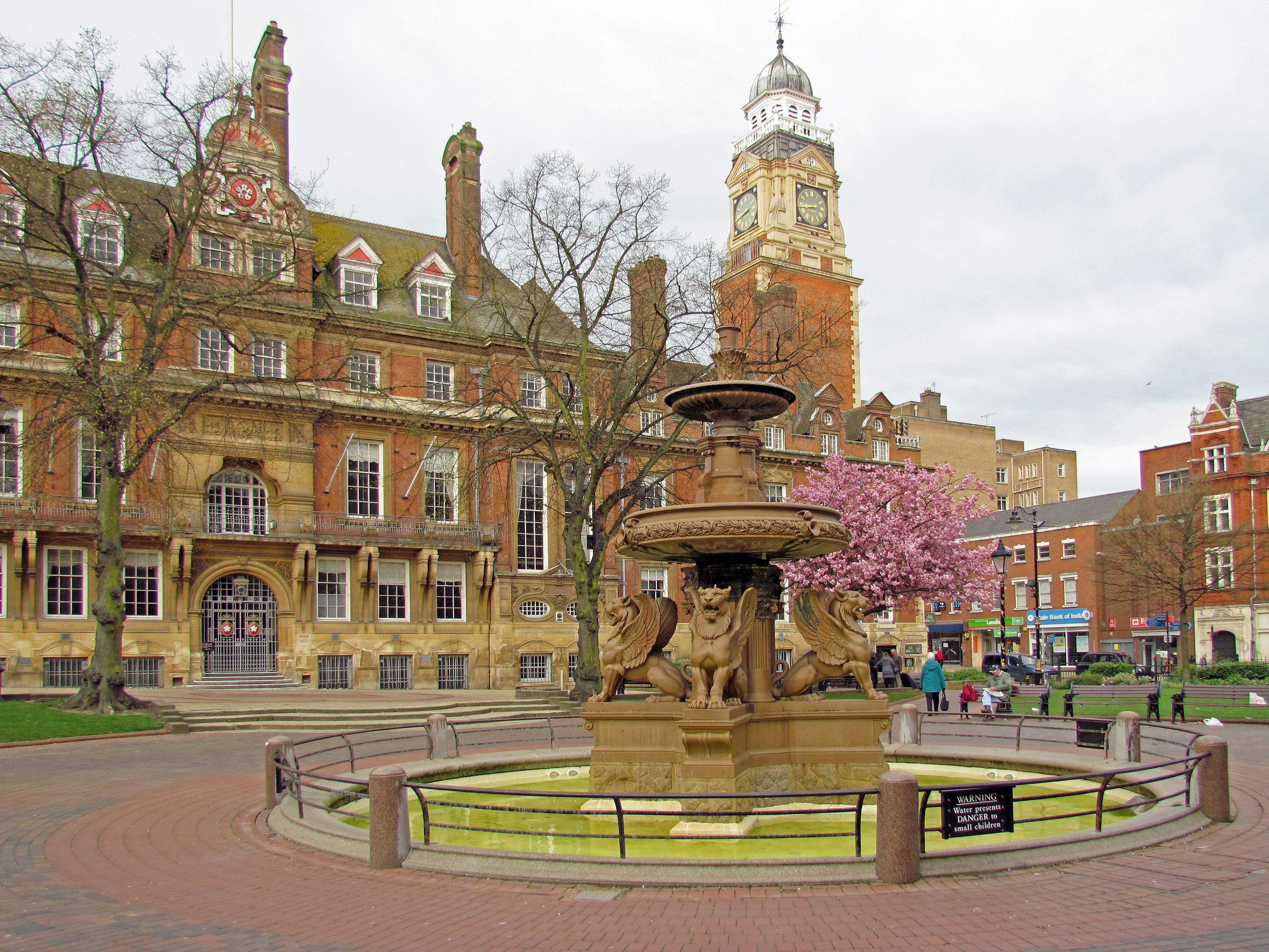 Leicester Town Hall Square 2014